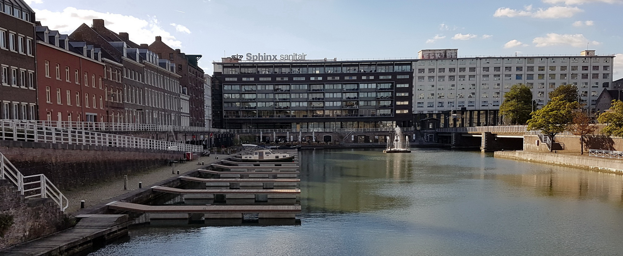 View of inner harbour Bassin in Maastricht, the Netherlands.